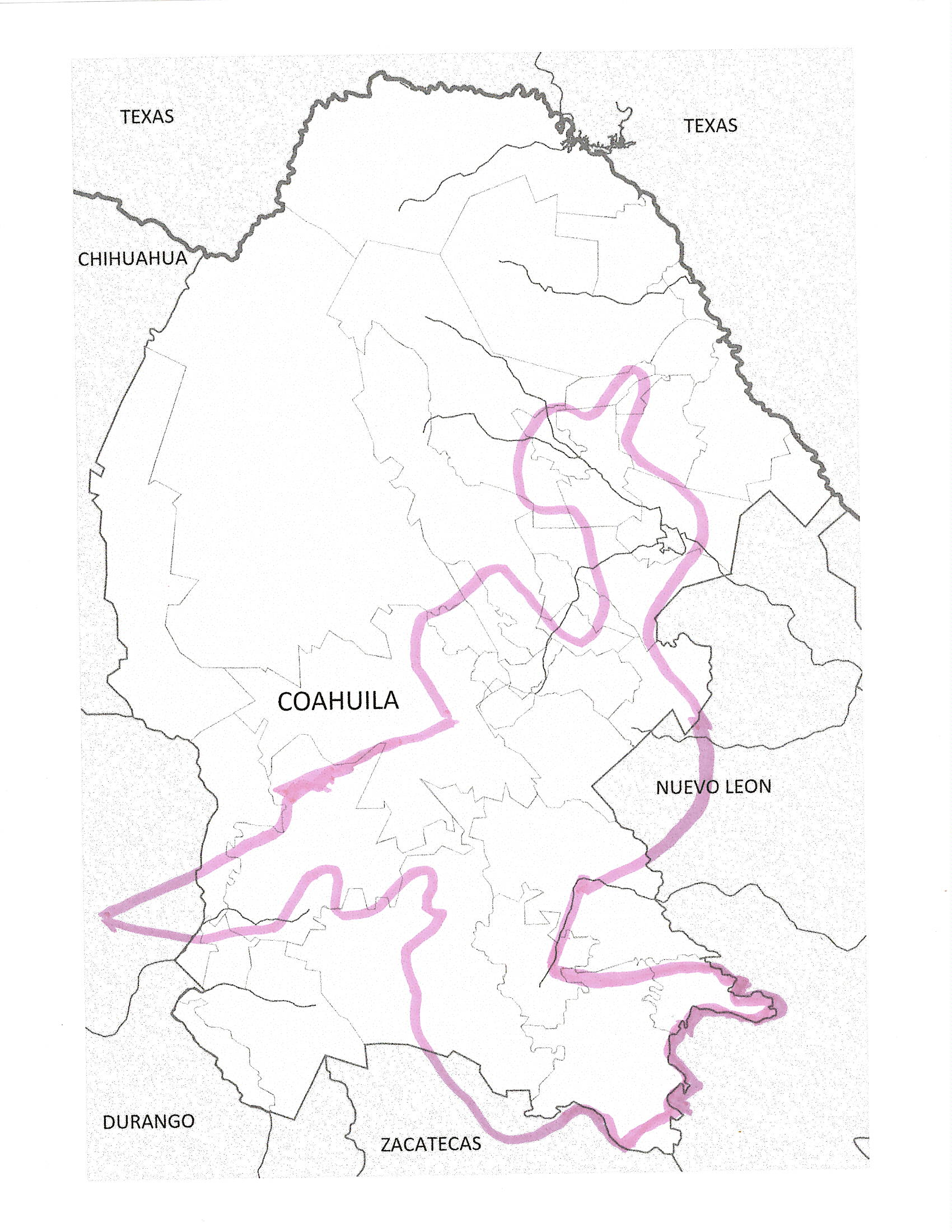 The approximate boundaries of the Sanchez Navarro latifundio (estate) in Mexico in the 19th century.